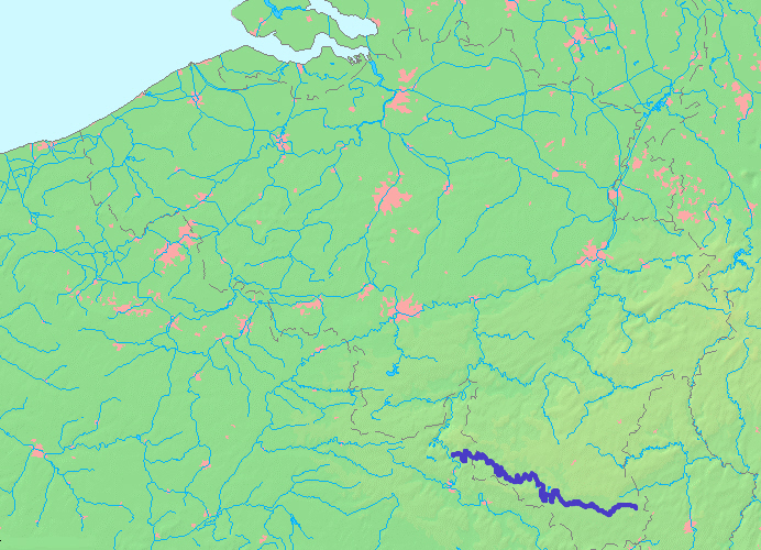 Map showing the Semois position.